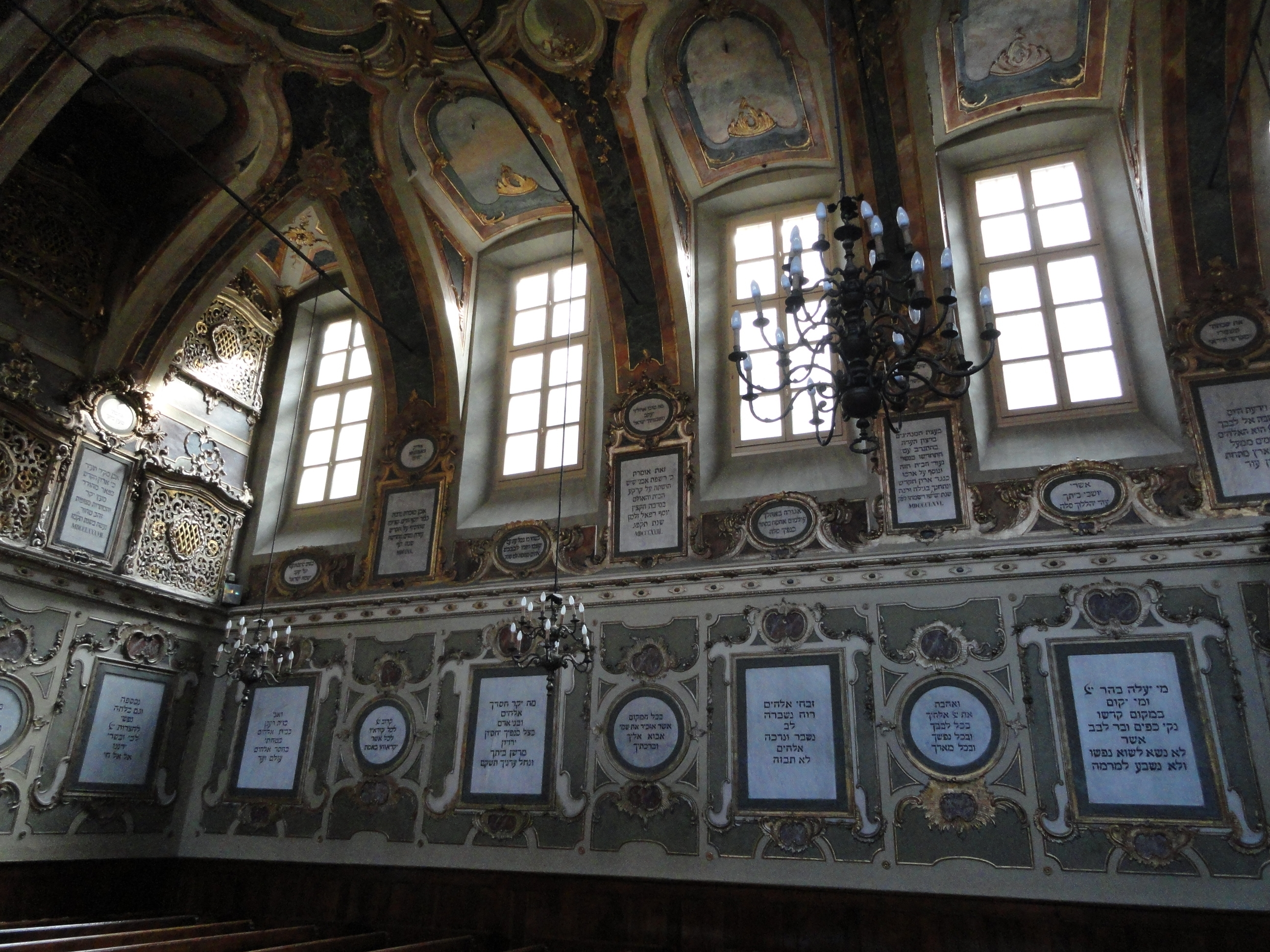 Casale Monferrato (Piemonte - Italy): The synagogue: commemorative: inscriptions in hebrew